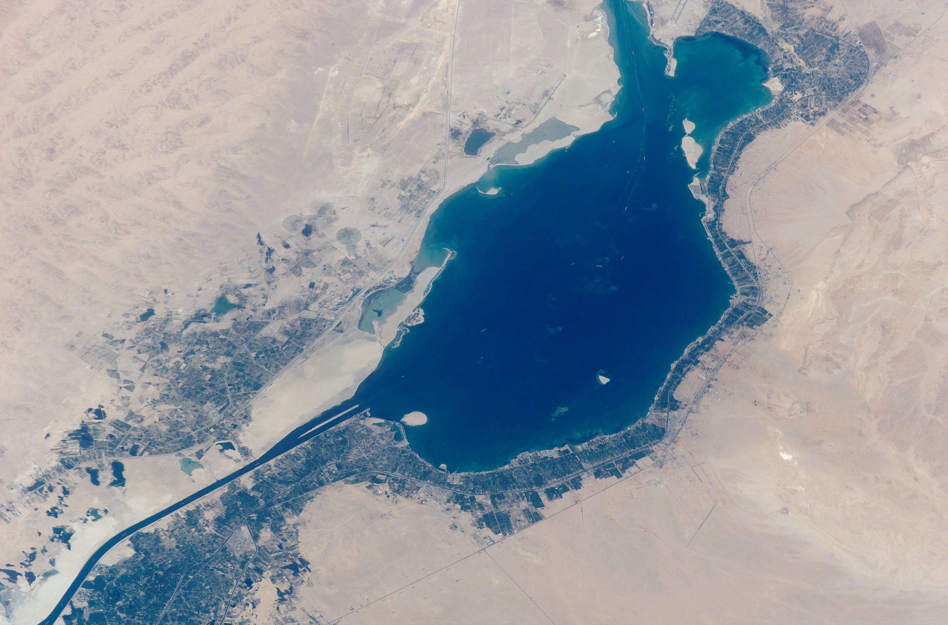 NASA orbital photo of the Great Bitter Lake in Egypt. This image is taken from a position north west of the lake, looking south east along the Suez Canal.